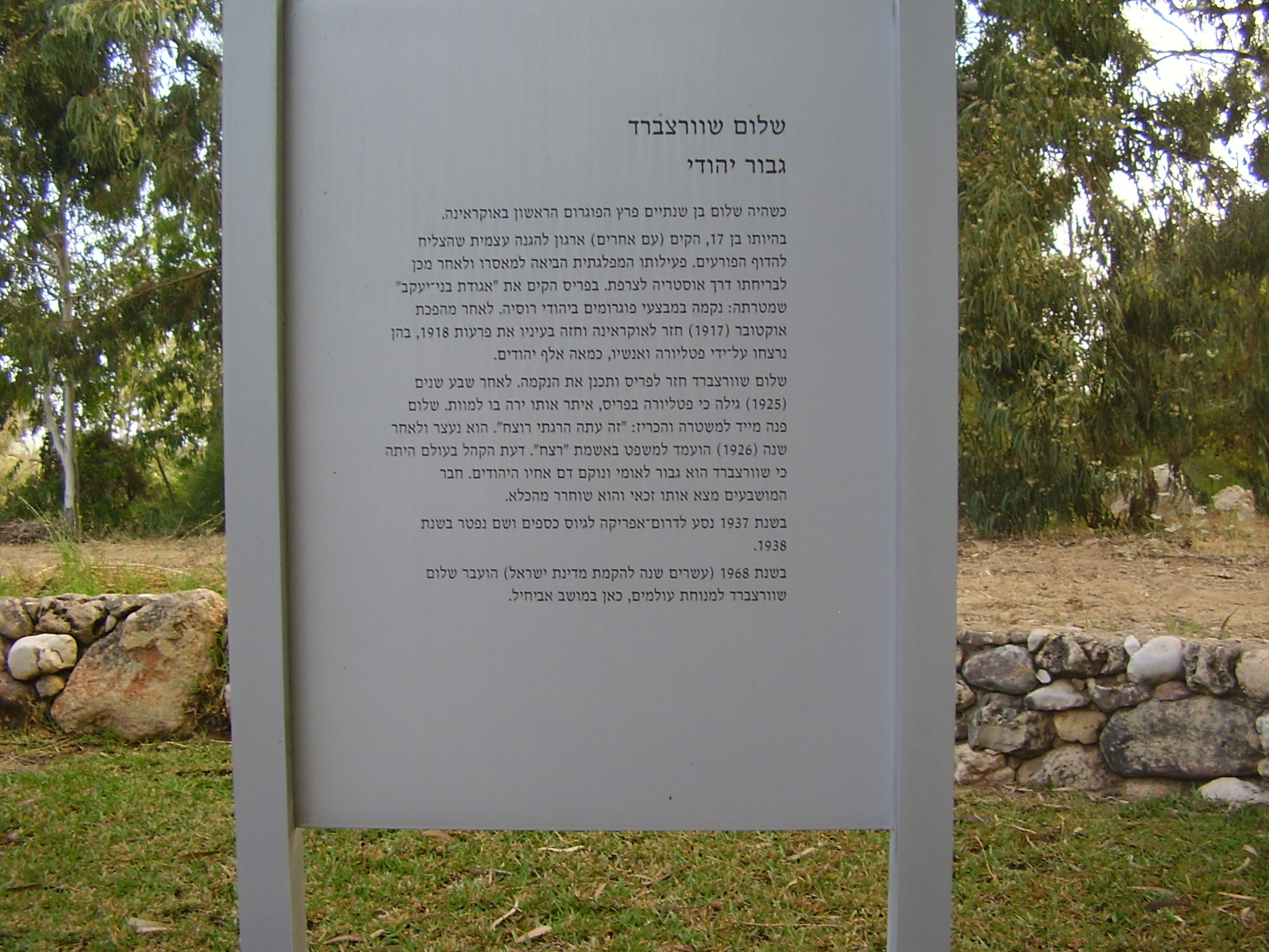 shalom (sholem) schwartzbard memorial in avihayil, israel